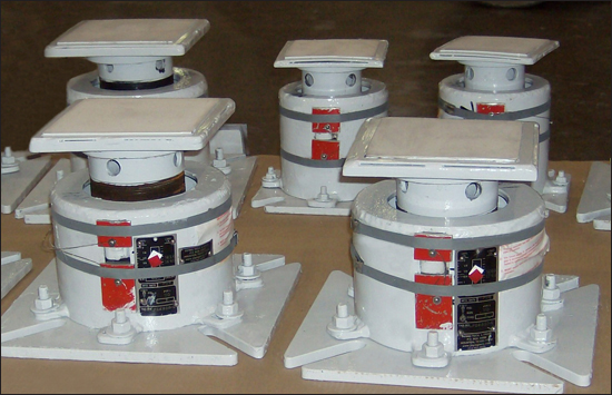 Variable spring supports manufactured by Piping Technology & Products, Inc.